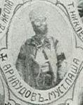 Portrait of IMARO member Hristo Arnaudov from Mustafa Pasha, today Svilengrad